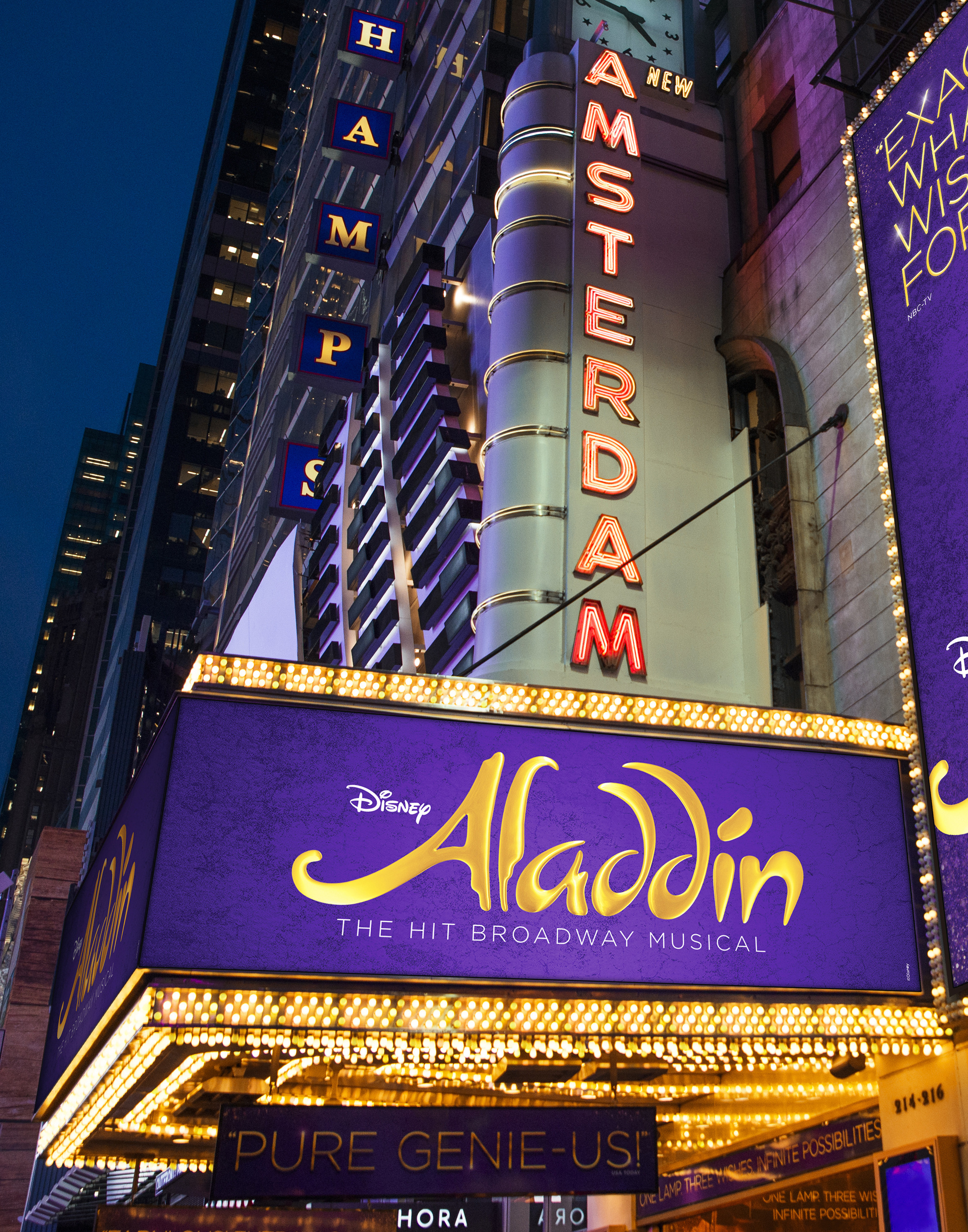 Aladdin at New Amsterdam Theatre in Broadway